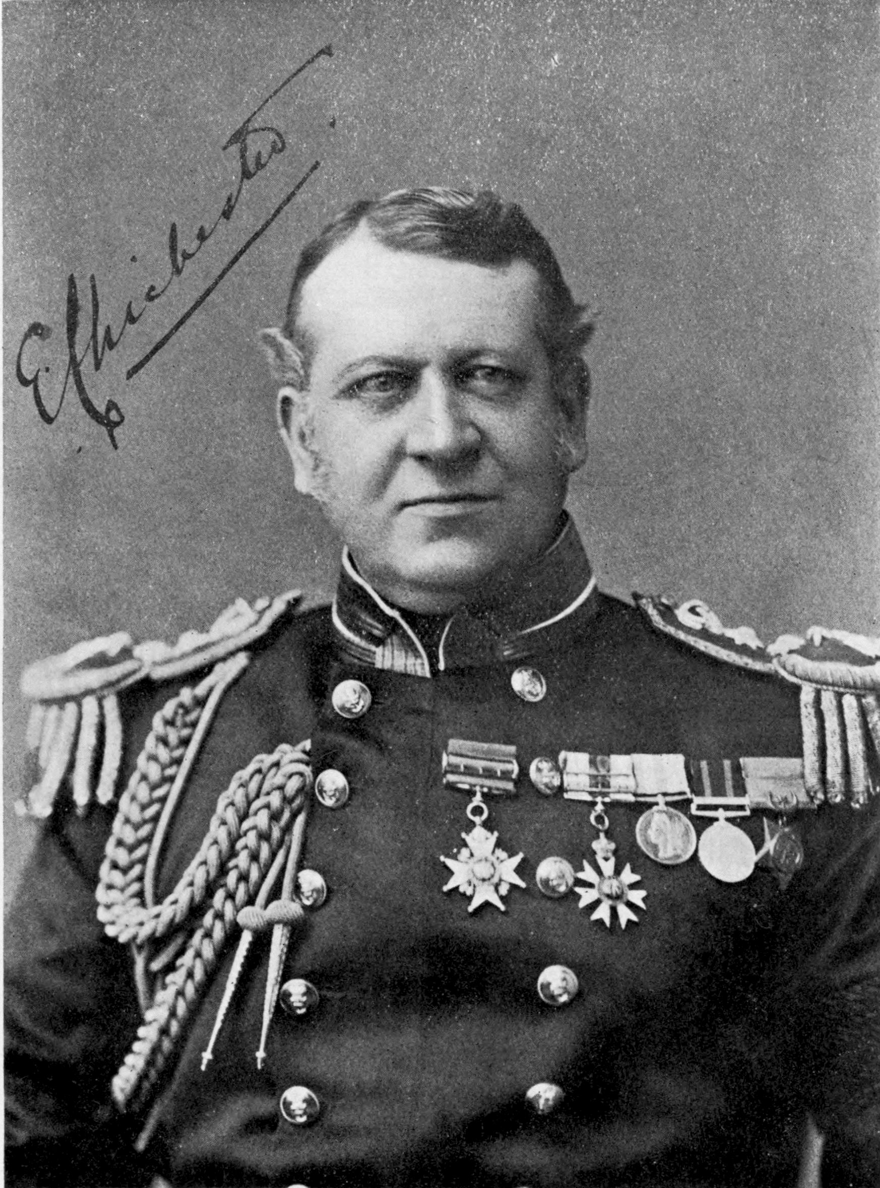 Rear-Admiral Sir Edward Chichester, Bart; /903. Characters and Strange Events of Devonshire, England